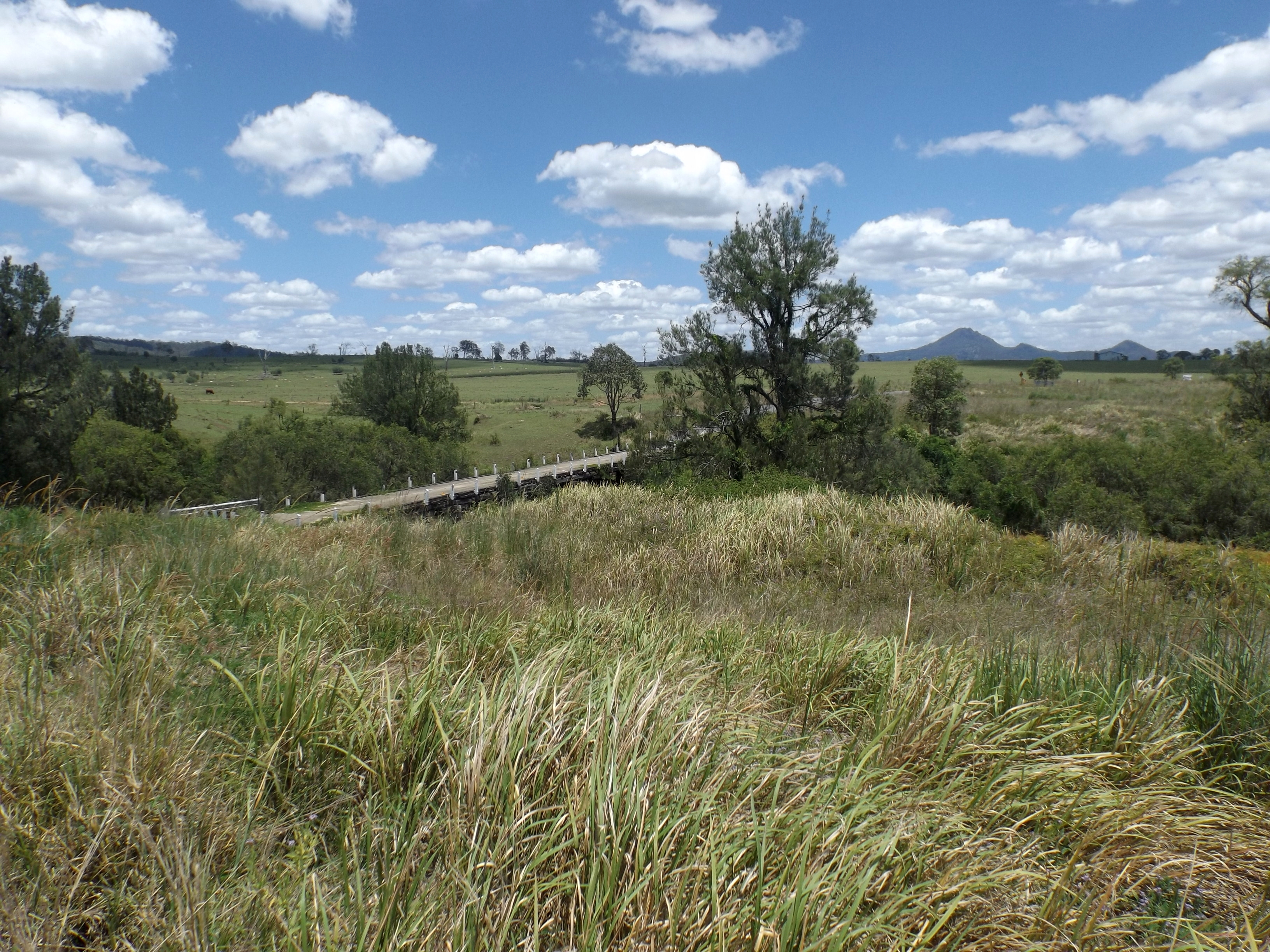 Photo of closed road bridge over Teviot Brook at Kagaru, Scenic Rim Region, Queensland, Australia.